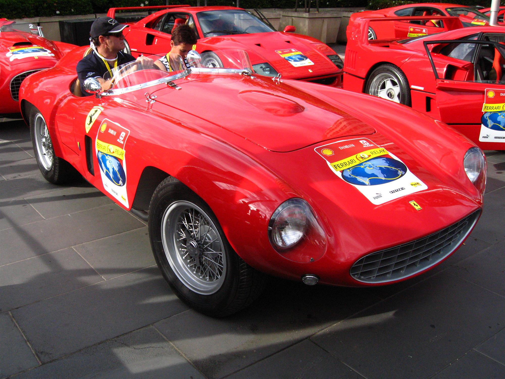 1955 Ferrari 750 Monza Scaglietti s/n 0498M - front left view 2007 Grand Prix Festival Celebrating Ferrari’s 60th Anniversary. Crown Casino, Melbourne, Australia. Photo taken by Luke van Grieken on 3 March 2007 using a Canon IXUS 750 camera. Additional supercar images available at